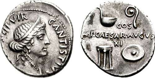 AUGUSTUS. 27 BC-14 AD. AR Denarius (3.72 g, 2h). Rome mint. Struck 16 BC. C. Antistius Vetus, moneyer. C • ANTISTIVS [• VETV]S • III • VIR, diademed and draped bust of Venus right IMP CAESAR AVGV S, COS/XI in two lines above and below, simpulum and lituus above, tripod and patera below. RIC I 368; RSC 348a; BMCRE 98 note; BN 368 var. (AVGV).